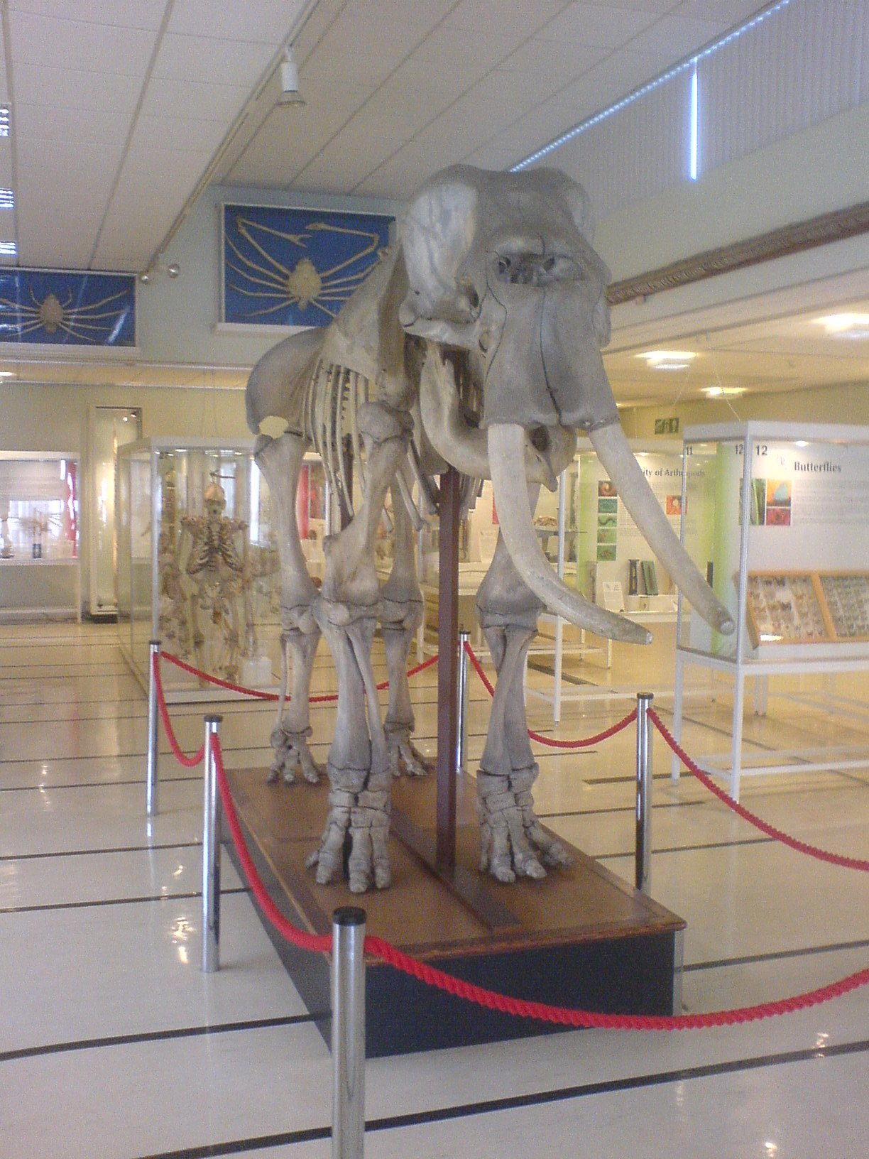 The Cole Museum of Zoology forms part of the School of Biological Sciences at the University of Reading and is located on the university's Whiteknights Campus| in the town of Reading|, England. This photo shows the skeleton of a circus elephant that dominates the floor of the museum Category:Reading Summary The Cole Museum of Zoology forms part of the School of Biological Sciences at the University of Reading and is located on the university's Whiteknights Campus in the town of Reading, England. This photo shows the skeleton of a circus elephant that dominates the floor of the museum